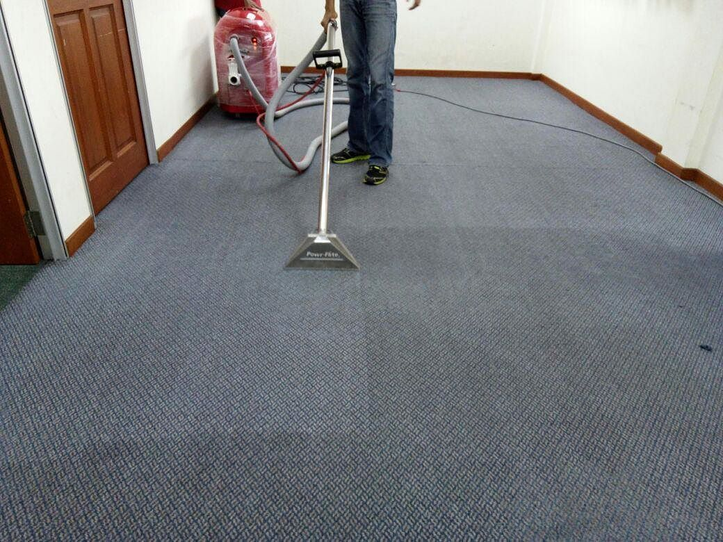 Carpet cleaning machine in use.